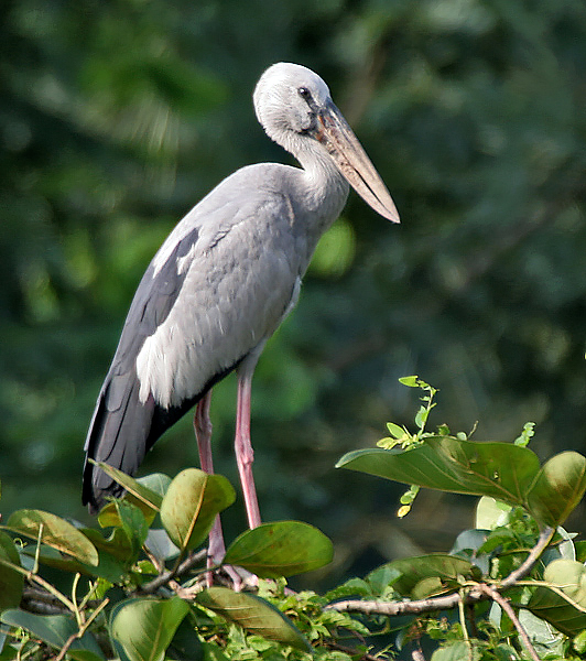 Asian Openbill Anastomus oscitans in Kolkata, West Bengal, India.